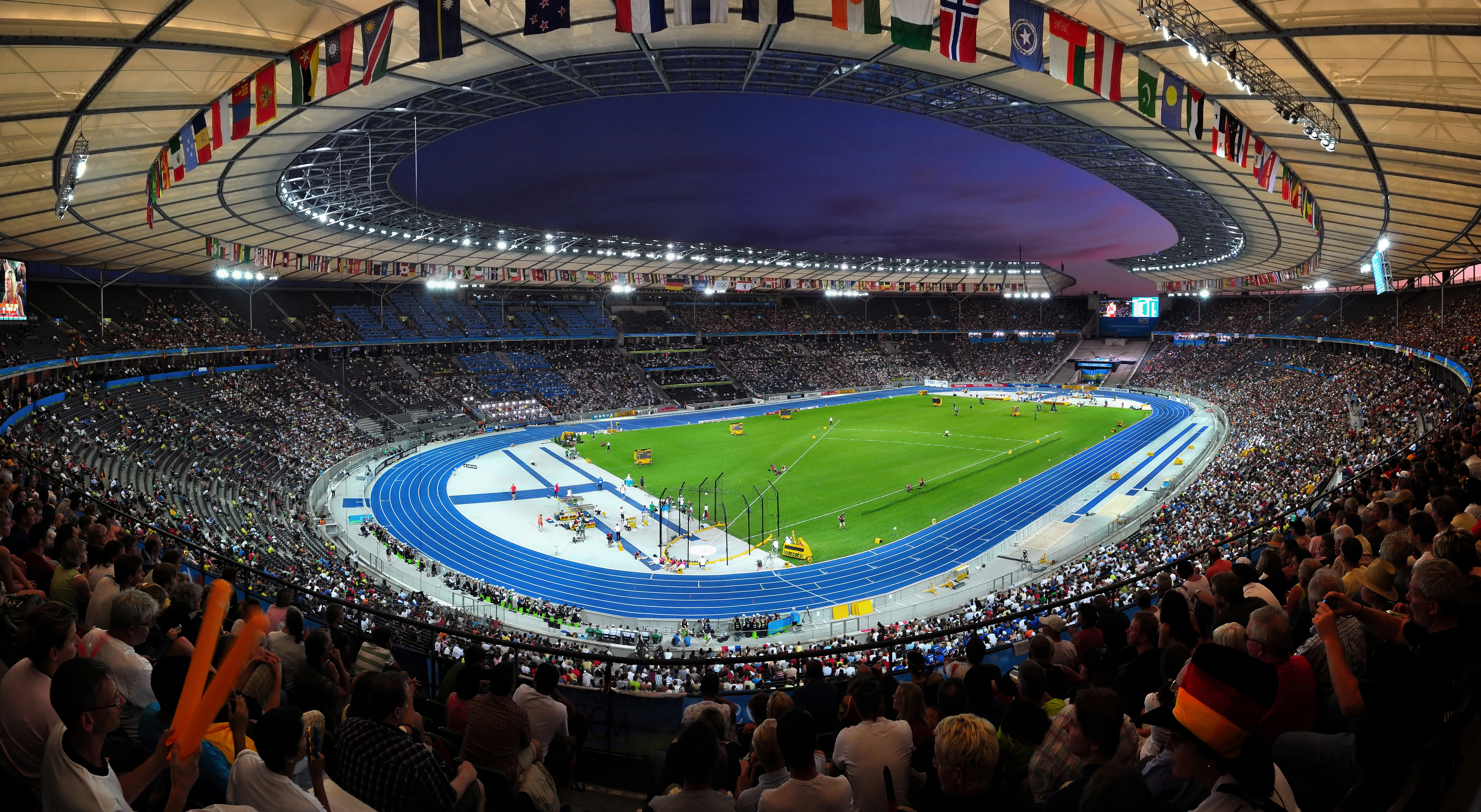 Panoramic view of the olympic stadium of Berlin during the 12th IAAF World Championships in Athletics